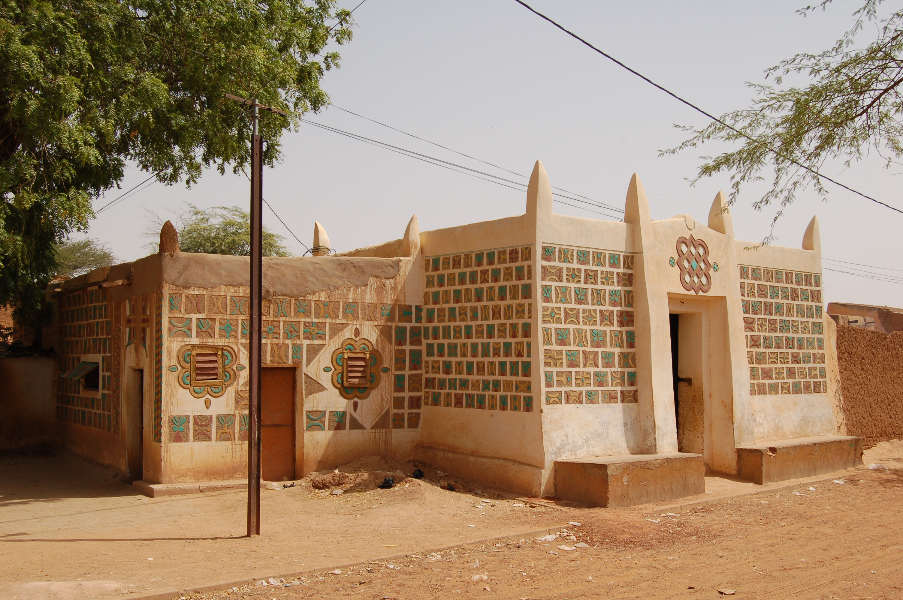 Image of an house in old town in Zinder, Niger. A traditional mud brick house with ornaments.